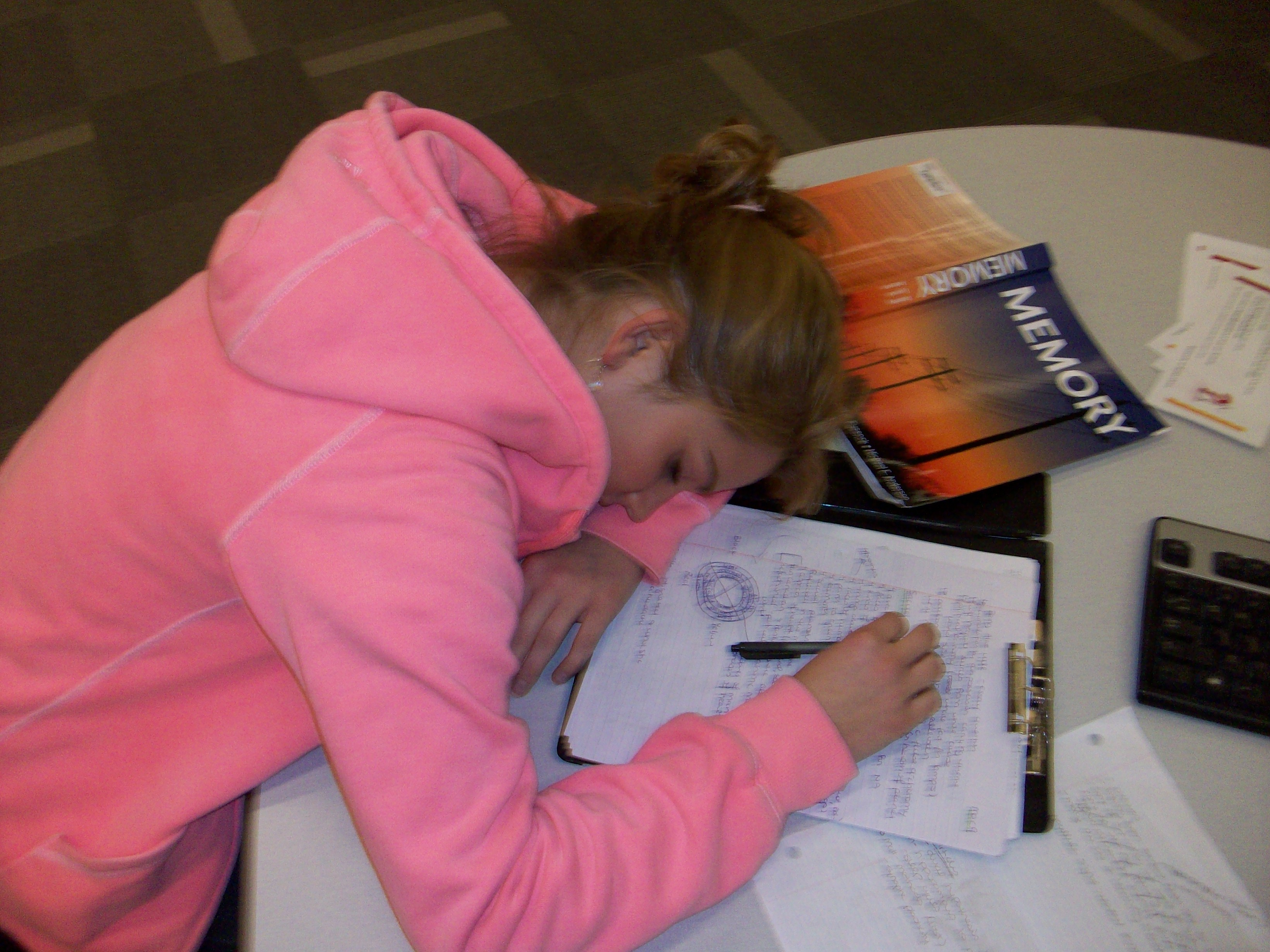 Students need sleep in order to study.